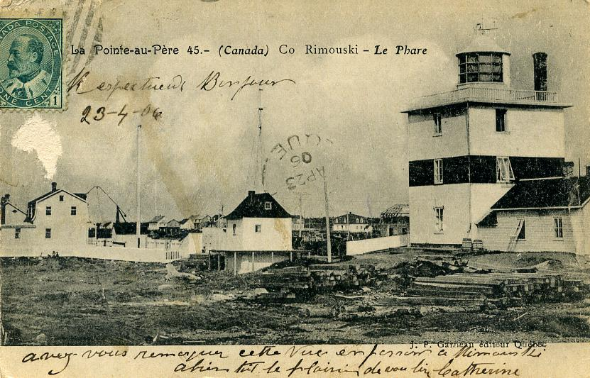 Second Pointe-au-Père Lighthouse (Quebec, Canada), built in 1867; postcard dated 1906-04-23